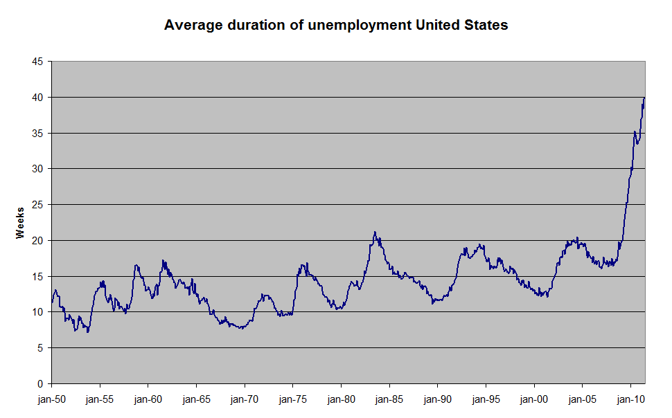 Average duration of unemployment in the US in week. Source: Federal Reserve Bank of St. Louis, Economic Research, series ID UEMPMEAN.